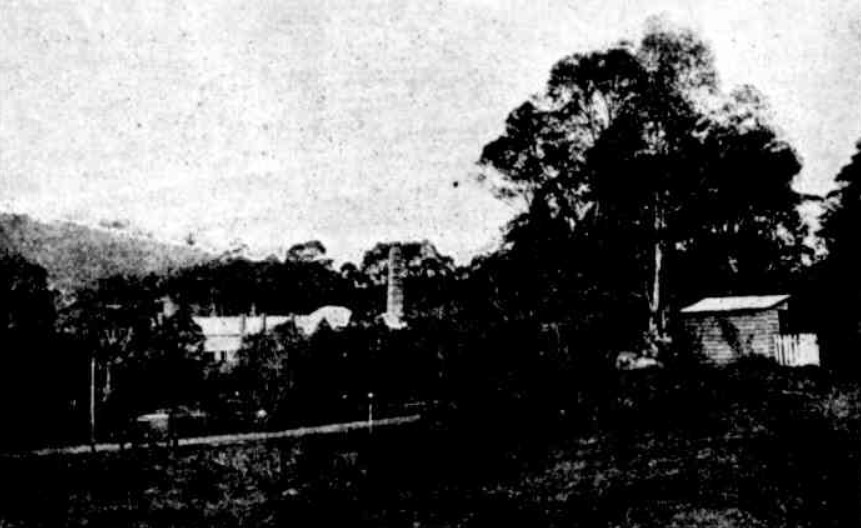 The Chalybeate Spring at Mittagong NSW is within the small shelter on the right. This file was taken from a newspaper photograph in the Australian Town and Country Journal (Sydney, NSW : 1870 - 1907) of Sat. 01-04-1893, page 27. The original caption in the newspaper is "Iron Mine Shaft, Showing Mineral Springs, Mittagong.". Photograph is an image from a digitised Australian newspaper (dated 01-04-1893), from Trove archive of the National Library of Australia. The Trove article is at: The National Library of Australia say this at their website: "Can I copy the images and use them in Wikipedia, and how should I cite/credit them? For further information about copyright, view the Australian Copyright Council website. This information applies to articles published prior to 1954 only. Use of articles published after 1954 may be subject to copyright restrictions. It is OK to use images from Digitised newspapers and more... on Wikipedia, other websites and in publications. The National Library (NLA) does not own copyright on the images or the original newspapers, and has digitised newspapers prior to 1954 on the understanding that they are out of copyright. Credit your source of the images as the National Library of Australia and use the stable article identifier (e.g. as your link. The article identifier is located by clicking on the 'cite' button at the top of the left hand column, under the heading 'article identifier'. The URL should not be used as this is not stable." REQUEST FROM ME, IN AUSTRALIA. PLEASE ADD SOME LICENSING OPTIONS THAT ARE APPLICABLE TO COUNTRIES OTHER THAN THE USA. NONE OF THE LICENCING OPTIONS IS SUITABLE TO THIS CASE. I have used the option that is closest; This photo is from an Australian newspaper published before 1954. (Not before 1923 and not in the USA.)